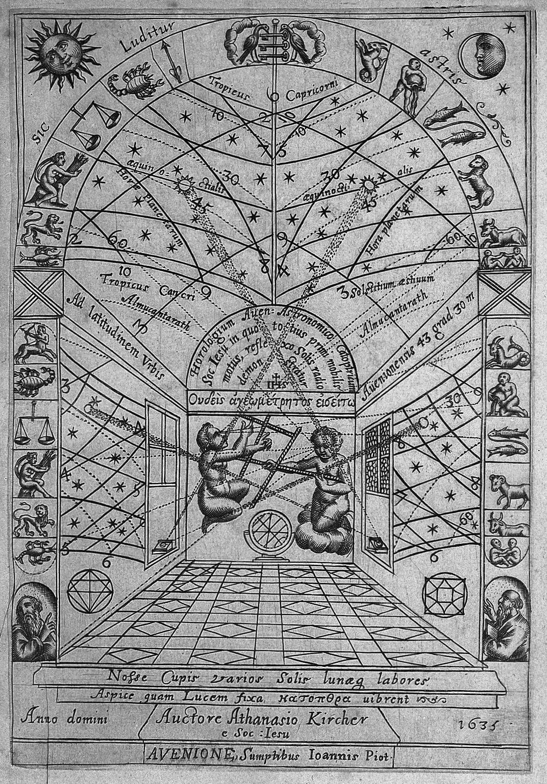 Rare Books Keywords: Athanasius Kircher